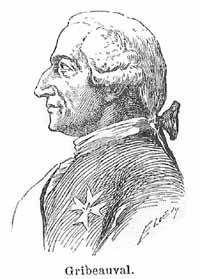 Jean Baptiste de Gribeauval, famous French Artillery General of the 18th century. Image found here [1]. Attributed to the Nouveau Larousse illustré, dictionnaire universel encyclopédique of 1900.